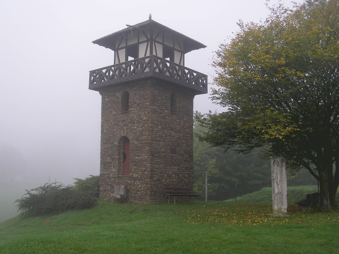 Description: Wrong reconstructed Limes watch tower, near Rheinbrohl / Germany Author: Schwing, picture taken 06.10.2005